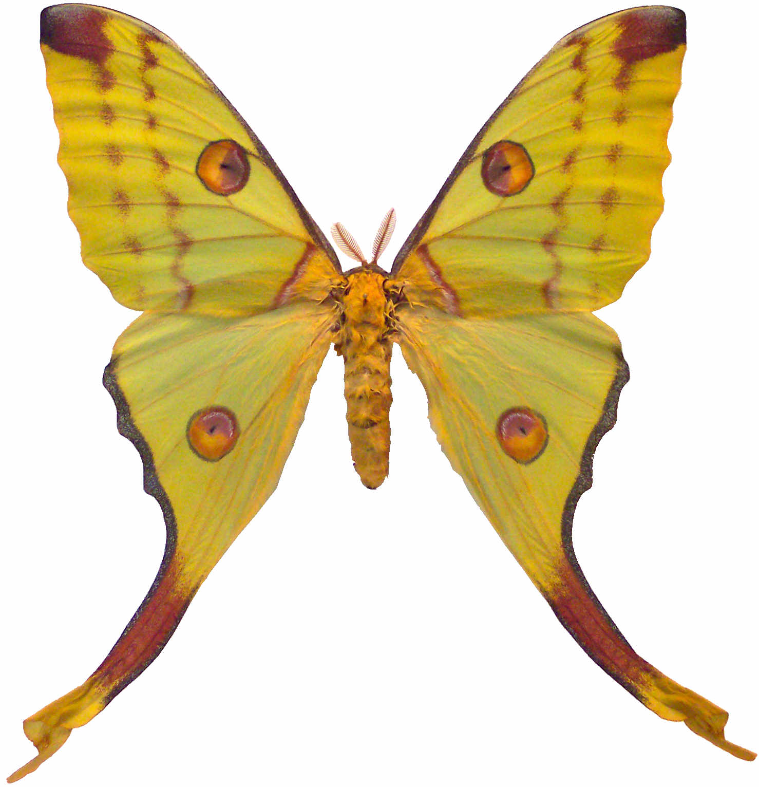 Argema mittrei female mounted - Ambatofinandrahana, Madagascar